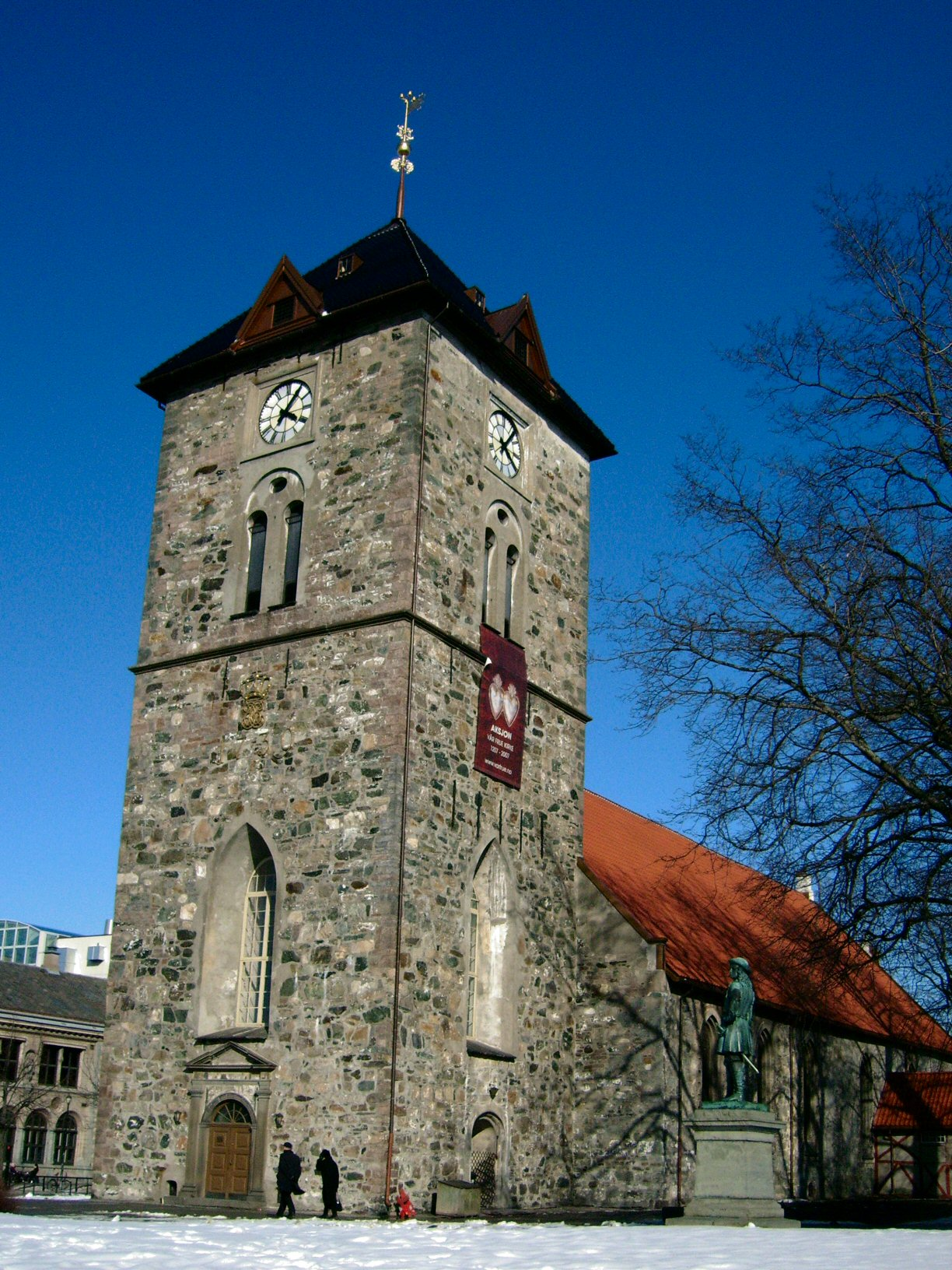 Our Lady's church, Trondheim, Norway. View from southwest.